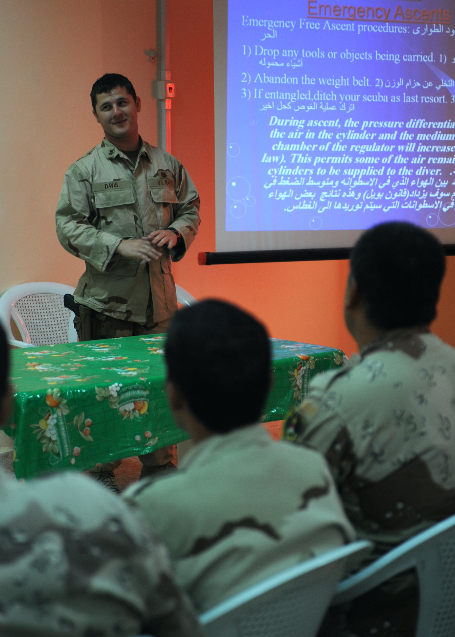 UMM QASR, Iraq (Sept. 30, 2009) Navy Diver 1st Class Joe Davis, assigned to Mobile Diving and Salvage Unit (MDSU) 1, teaches a class on diving related casualty care to Iraqi navy members at the Iraqi navy school. Members from MDSU-1 are attached to Combined Task Group 56.1. (U.S. Navy photo by Mass Communication Specialist 1st Class Elizabeth Allen/Released)